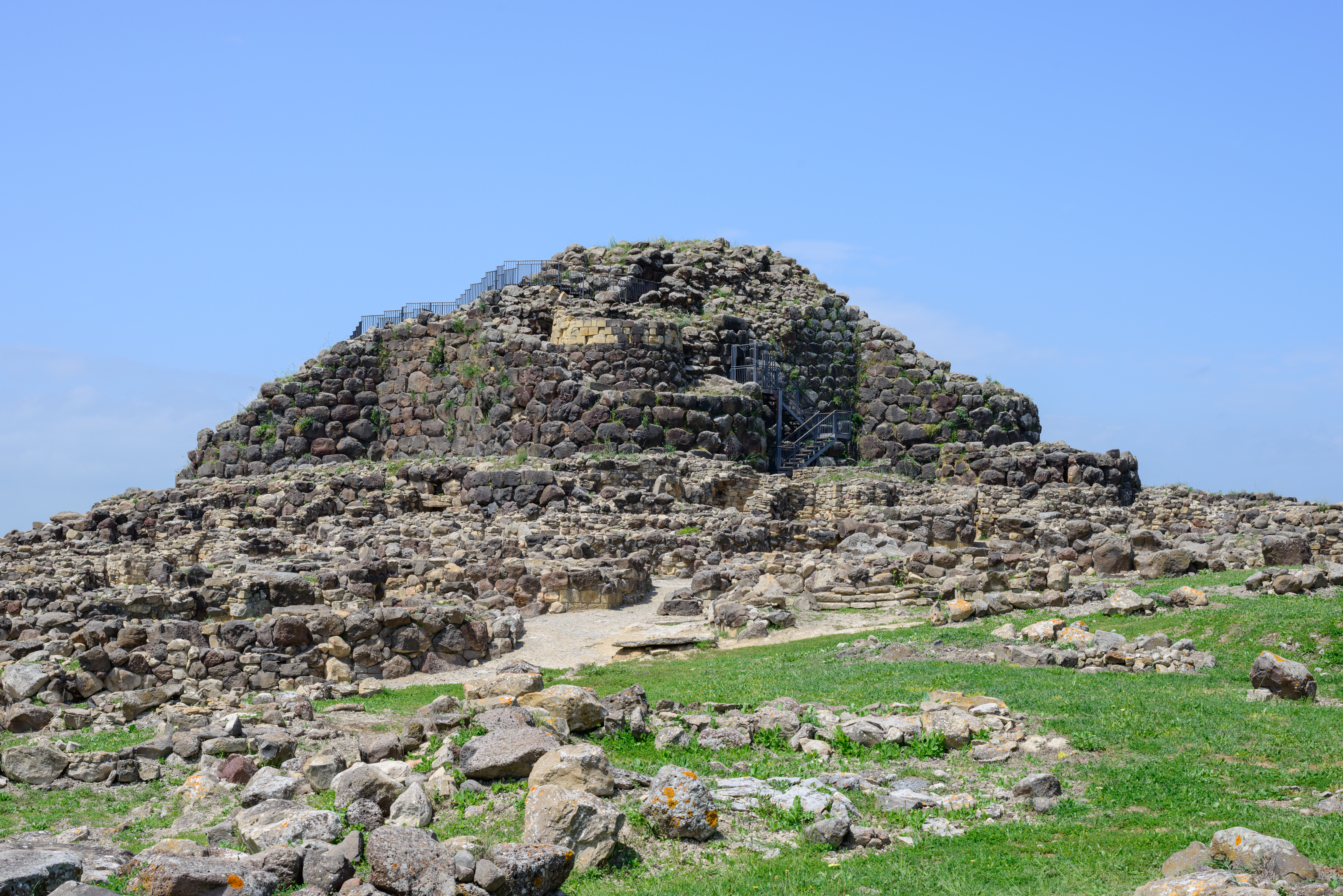 Su Nuraxi is a nuragic archaeological site in Barumini, Sardinia, Italy. The complex is centred around a three-storey tower built around the 16th century BC.